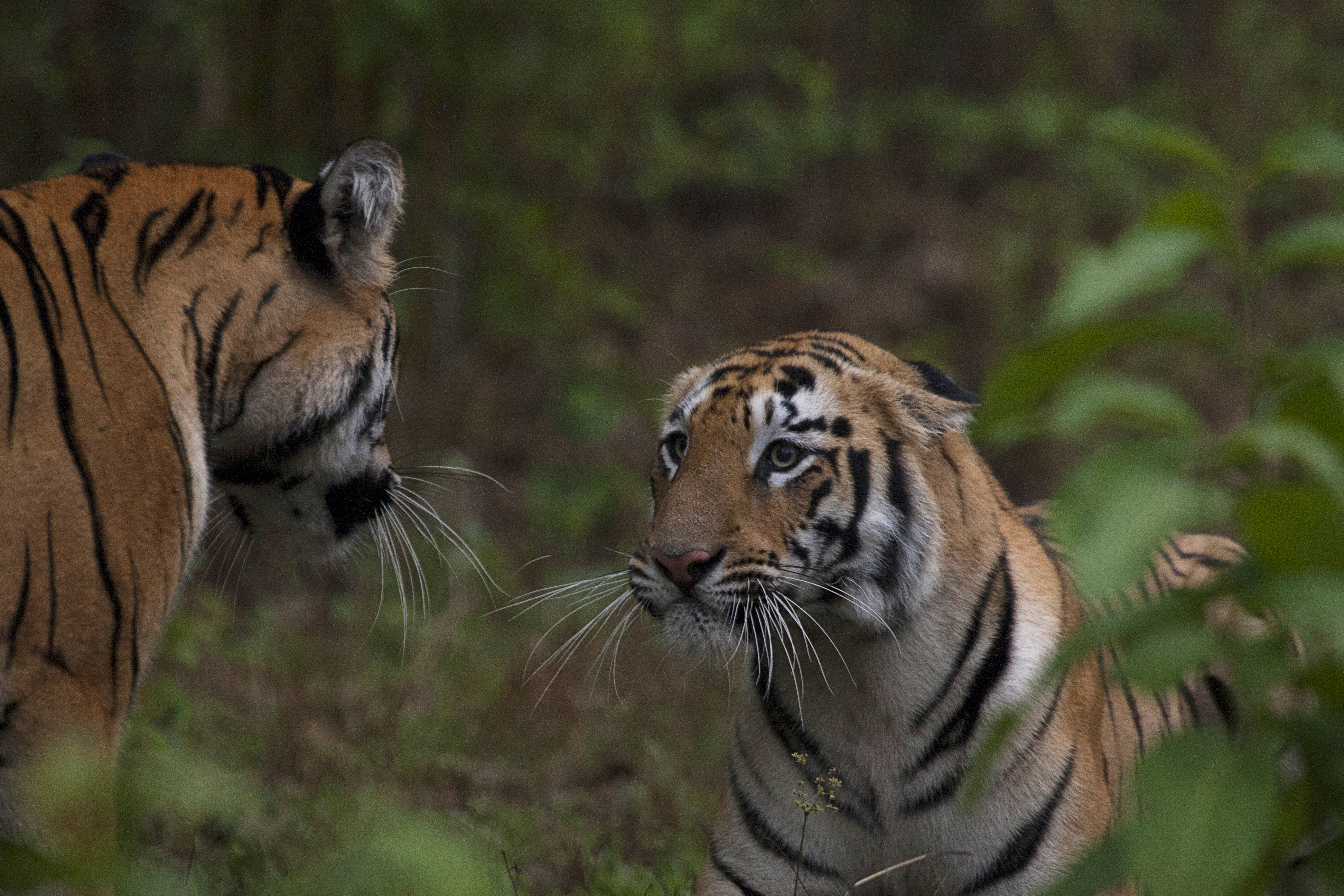 THIS YOUNG TIGRESS WAS IN PLAYFUL MOOD TRYING TO ENTICE HER SIBLING WITH A SUBMISSIVE " PLEASE PLAY WITH ME" APPEAL ALMOST PUSSY CAT LIKE WITH EARS ROLLED BACK AND AN EXPRESSION i CANNOT FORGET SINCE IT REVEALS THE HUMAN SIDE OF THESE FEROCIOUS ANIMALS.